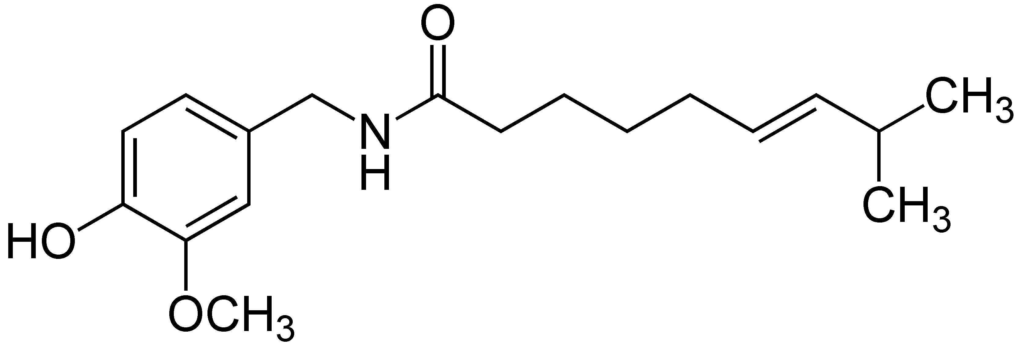 Structural formula of capsaicin